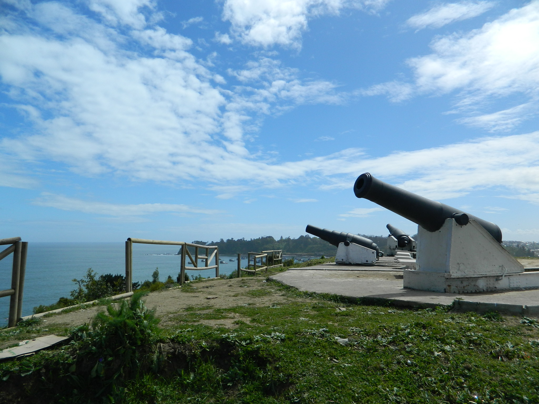 This is a photo of a national monument in Chile: 150